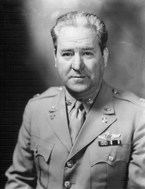 Lanphier, Thomas, Catalog #: BIOL00515, Last Name: Lanphier, First Name: Thomas